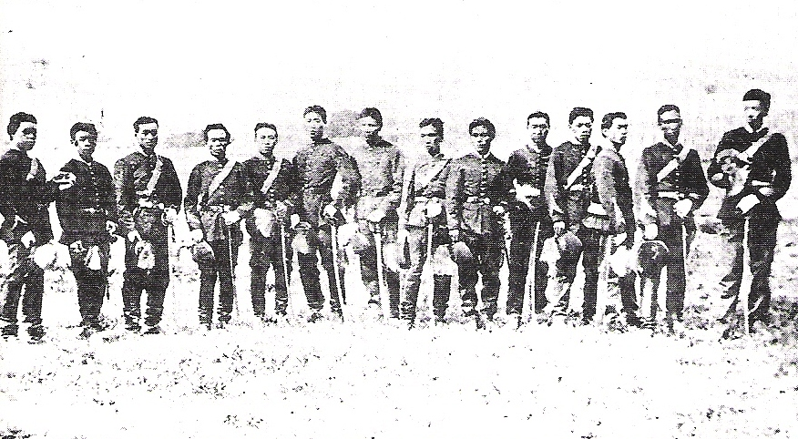 photograph of Japanese officers of the Imperial Japanese Army.